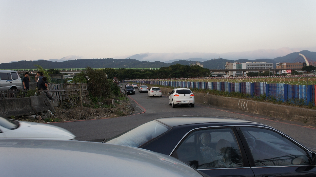 Another Side Of Ln.180 Binjiang St.